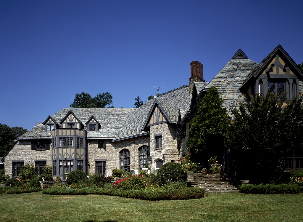 Residence of the Italian ambassador to the United States, Washington, D.C.